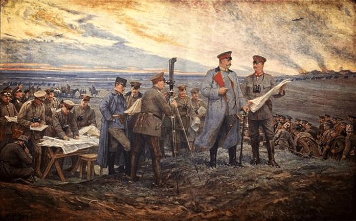 Battle of Tannenberg by Hugo Vogel.